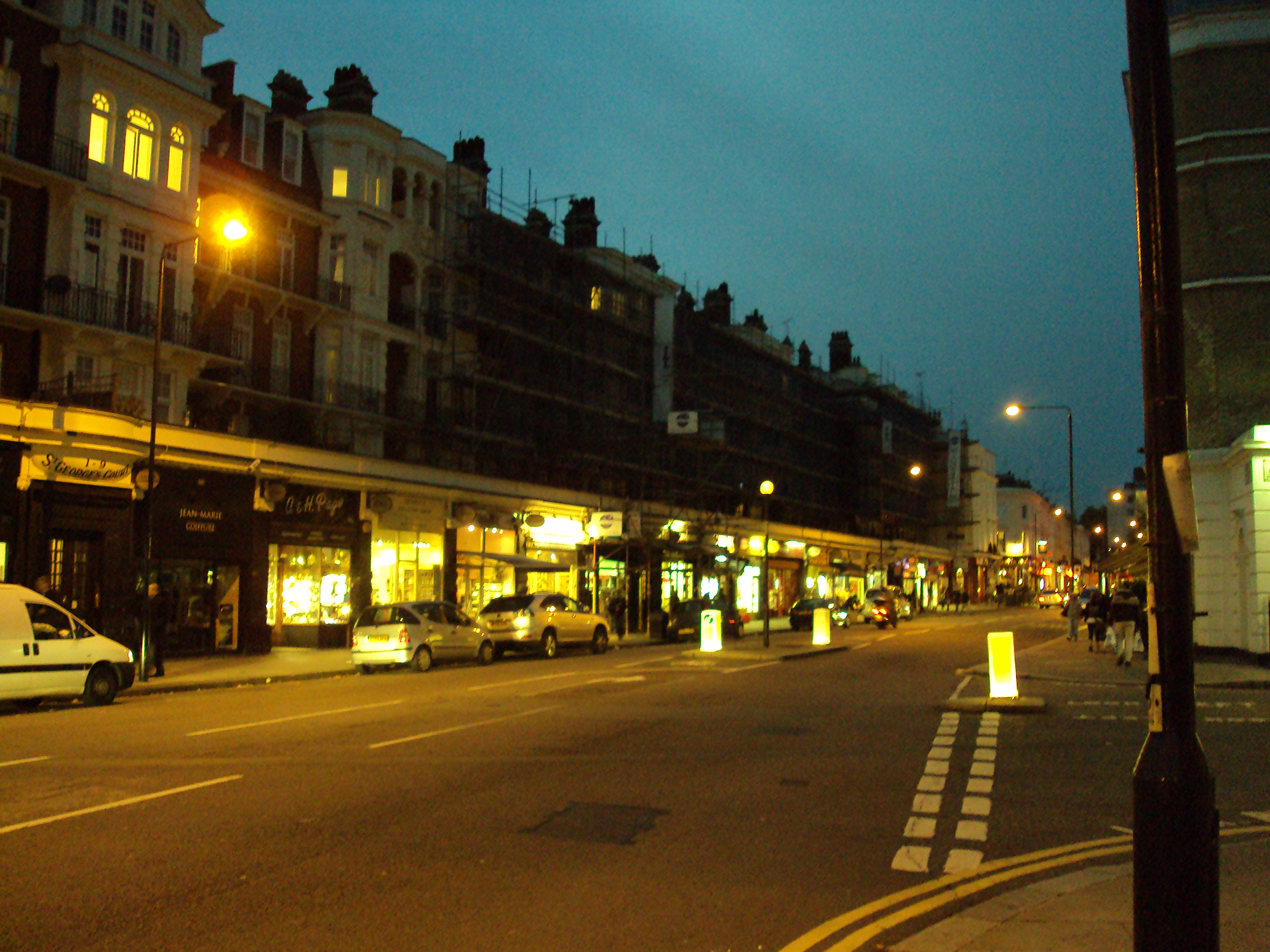 Gloucester Road, London.